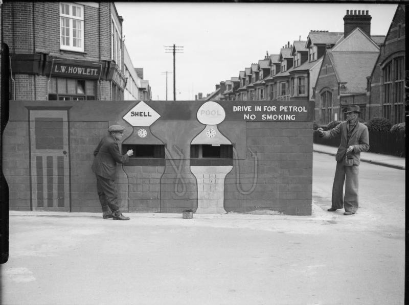 The British Army in the United Kingdom 1939-45 Pillbox camouflaged as a petrol station in Felixstowe, 24 August 1940.